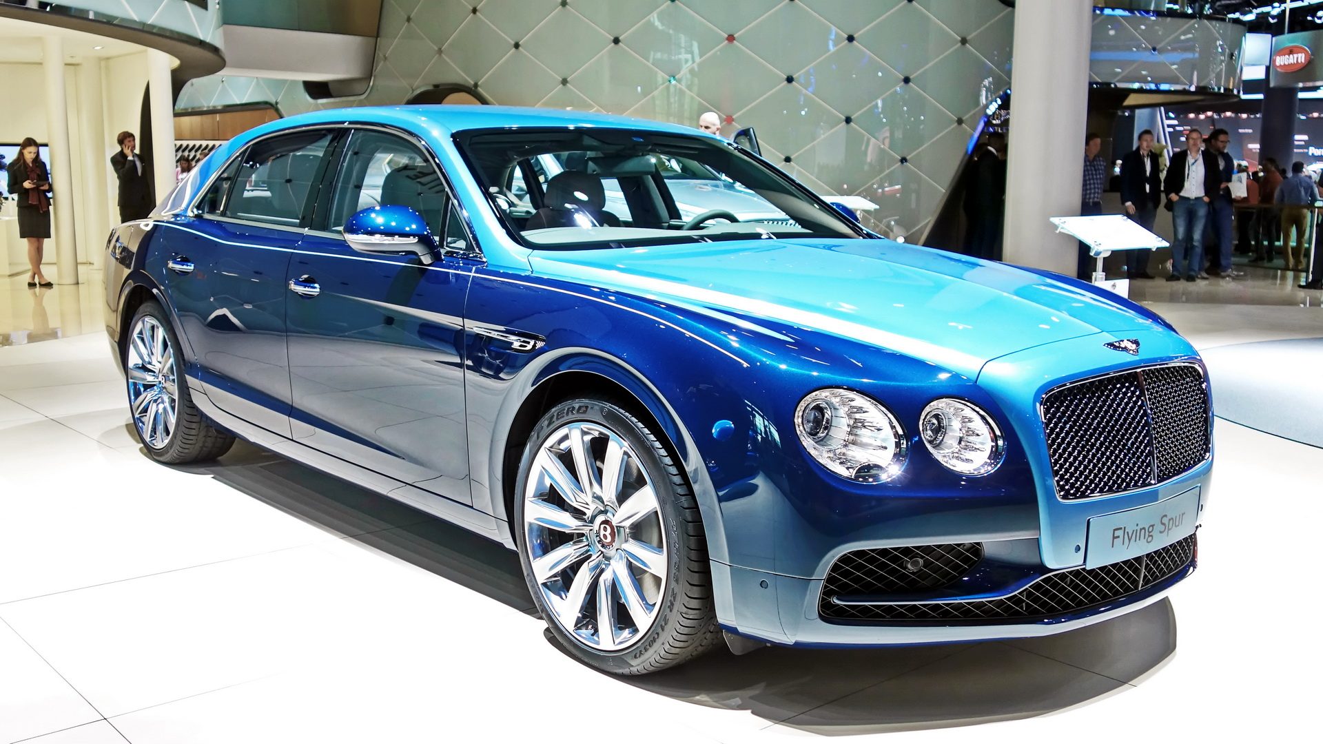 Bentley Flying Spur V8 S